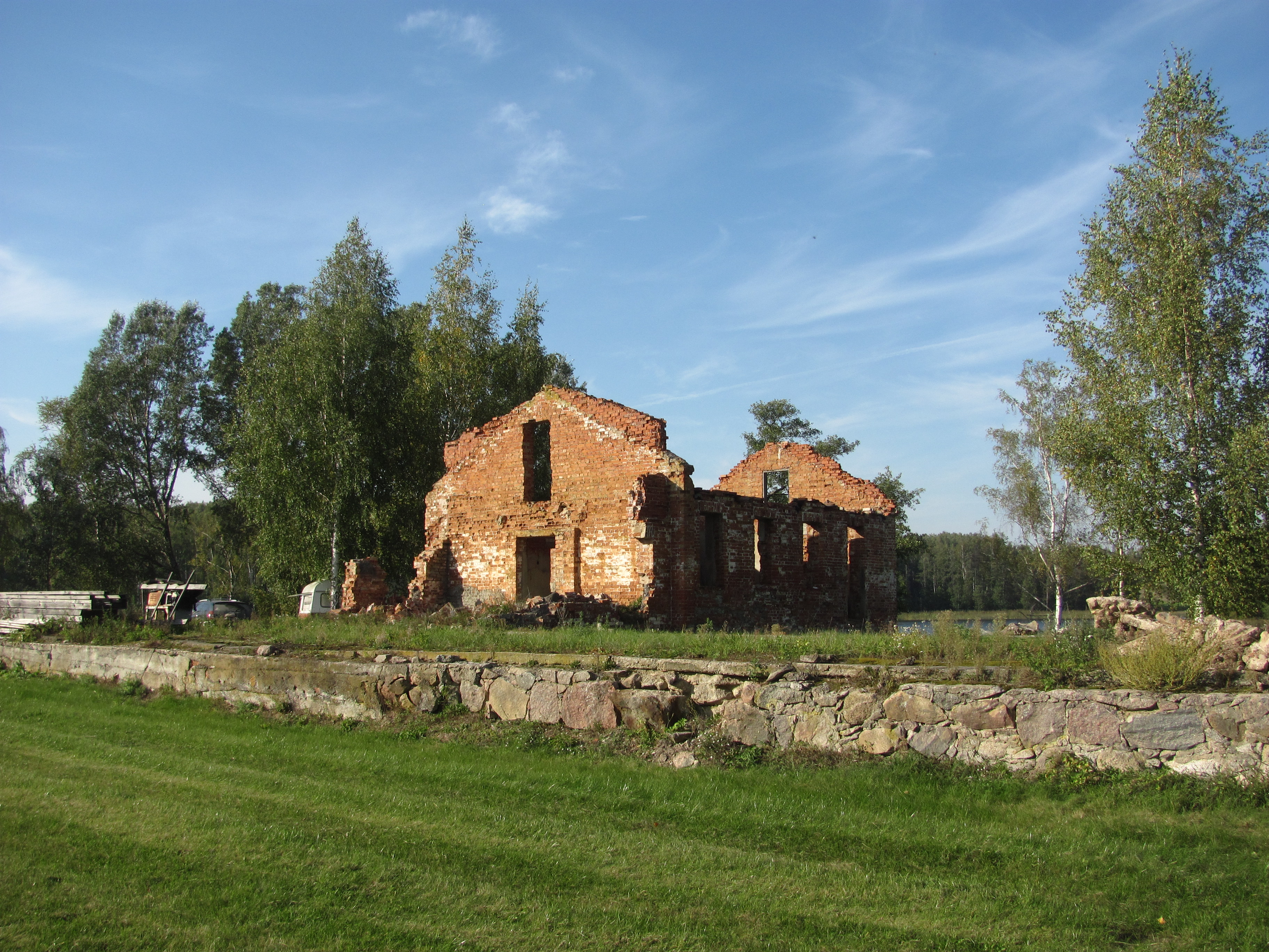 Turmanto sen., Lithuania